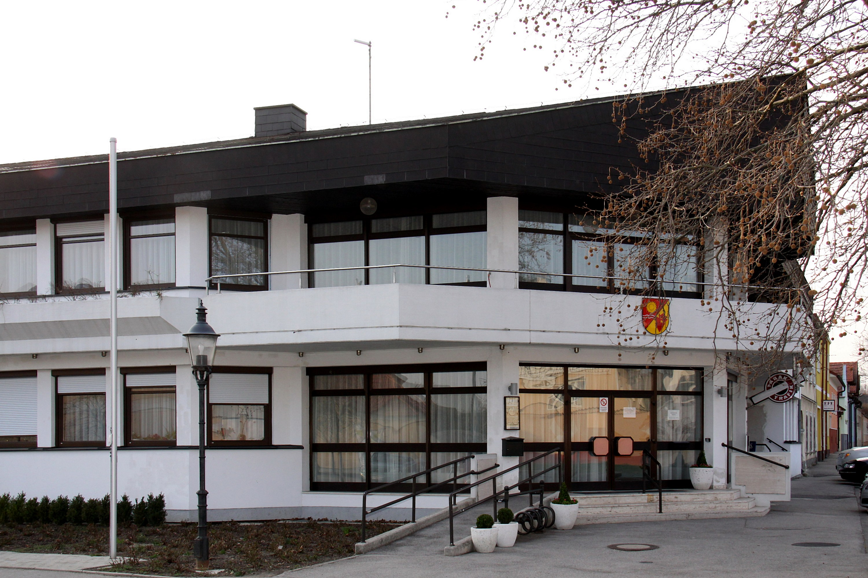 Steinbrunn - Municipal office